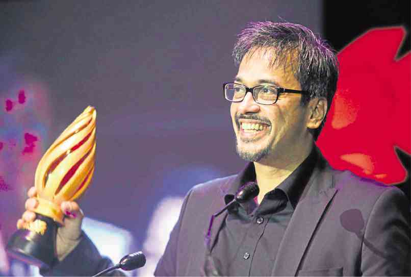 Award winning actor Alvin Anson